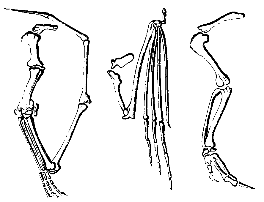 Wingbones of Pterodactyle (sic), Bat, and Bird (from Mr. Andrew Murray's "Geographical Distribution of Mammals")